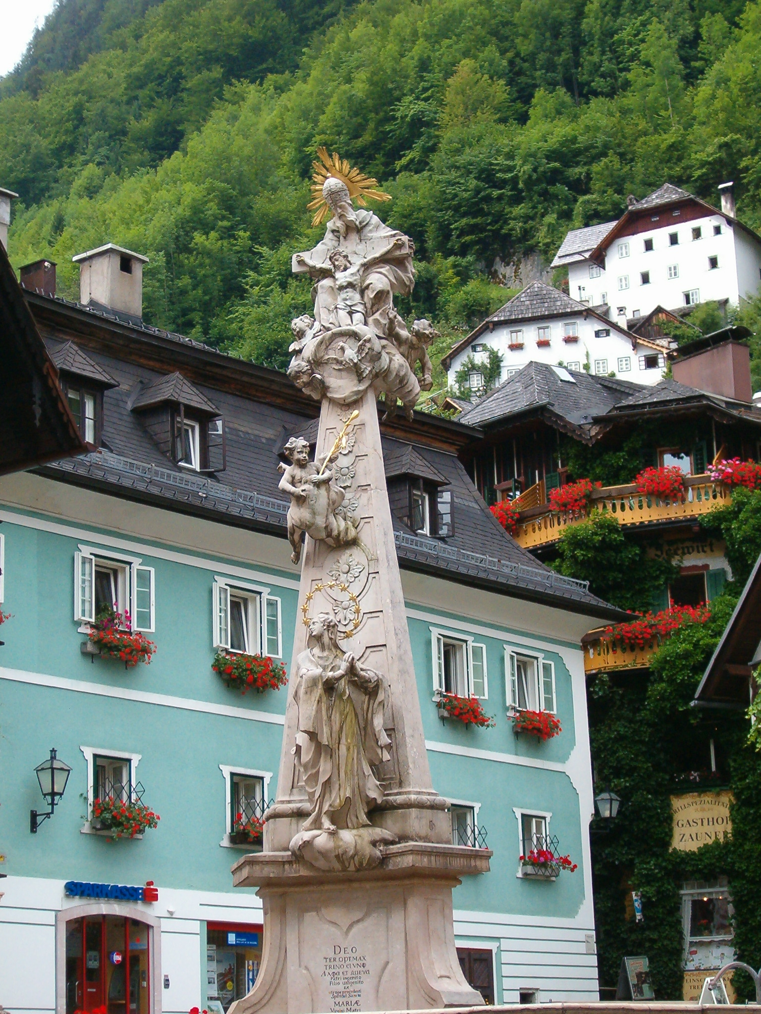 Hallstatt town in Austria.